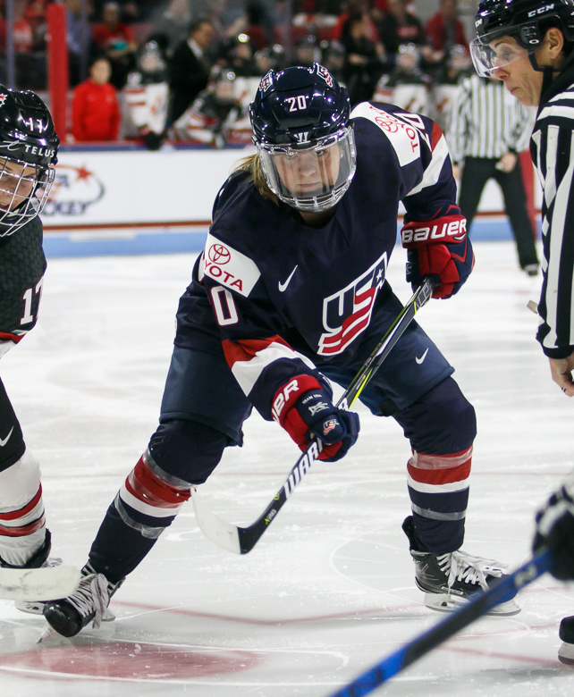 Hannah Brandt playing for Team USA in 2017